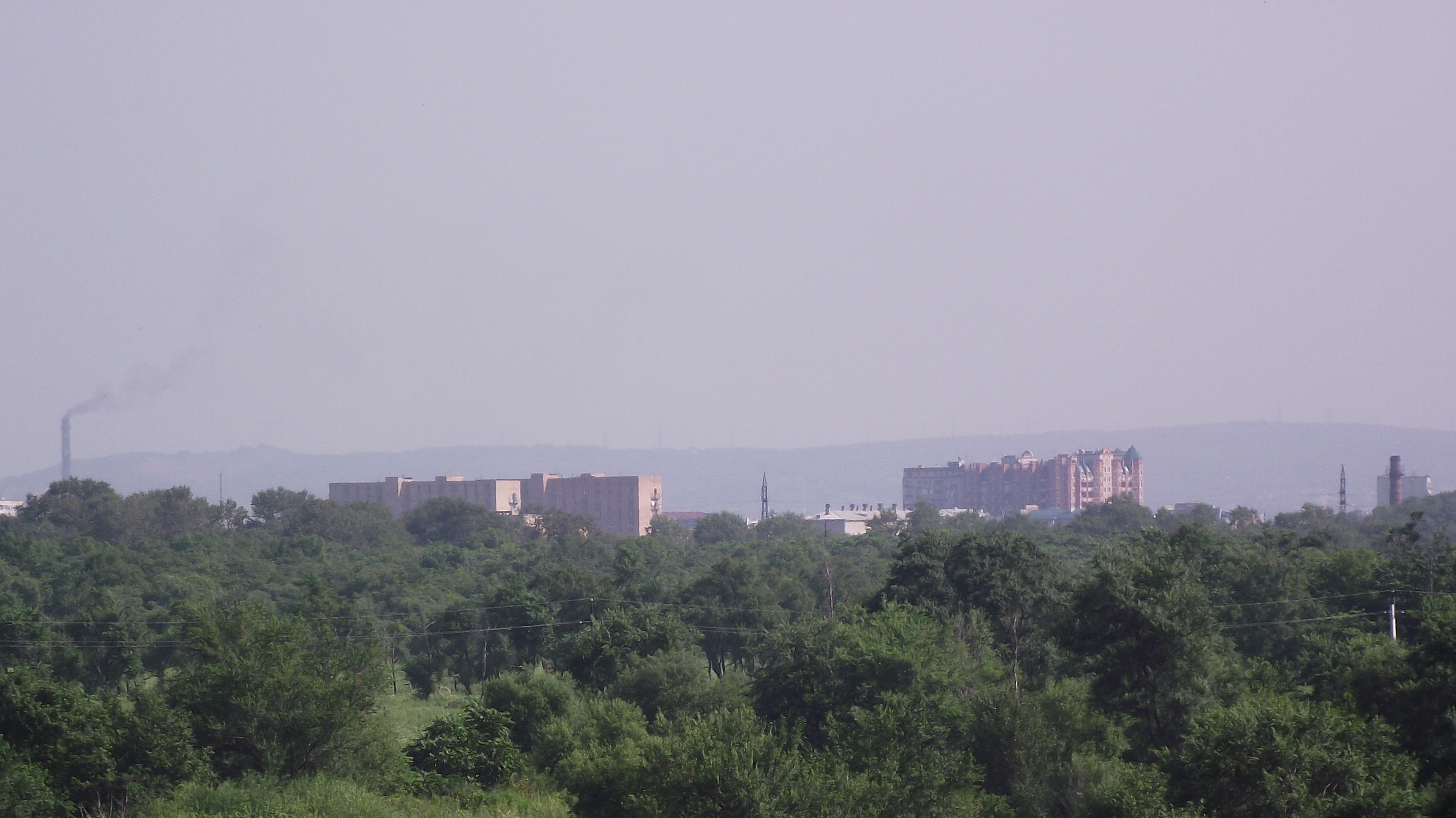 Ussuriysk